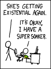 Last panel of the xkcd webcomic "Philosophy". On the xkcd site, it displays with the tooltip "It's like the squirt bottle we use with the cat."